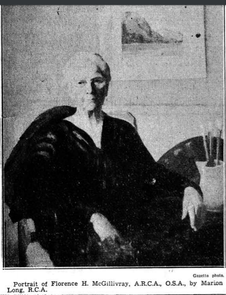 Portrait of Florence H. McGillivray by Marion Long2 Gazette Photo Gazette (Montreal) November 19, 1937. P.12.